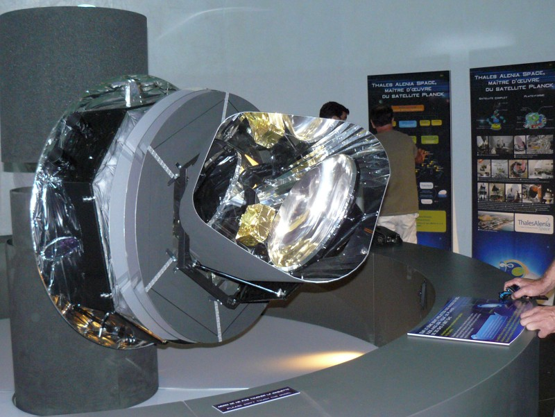 Planck mock-up in the dome